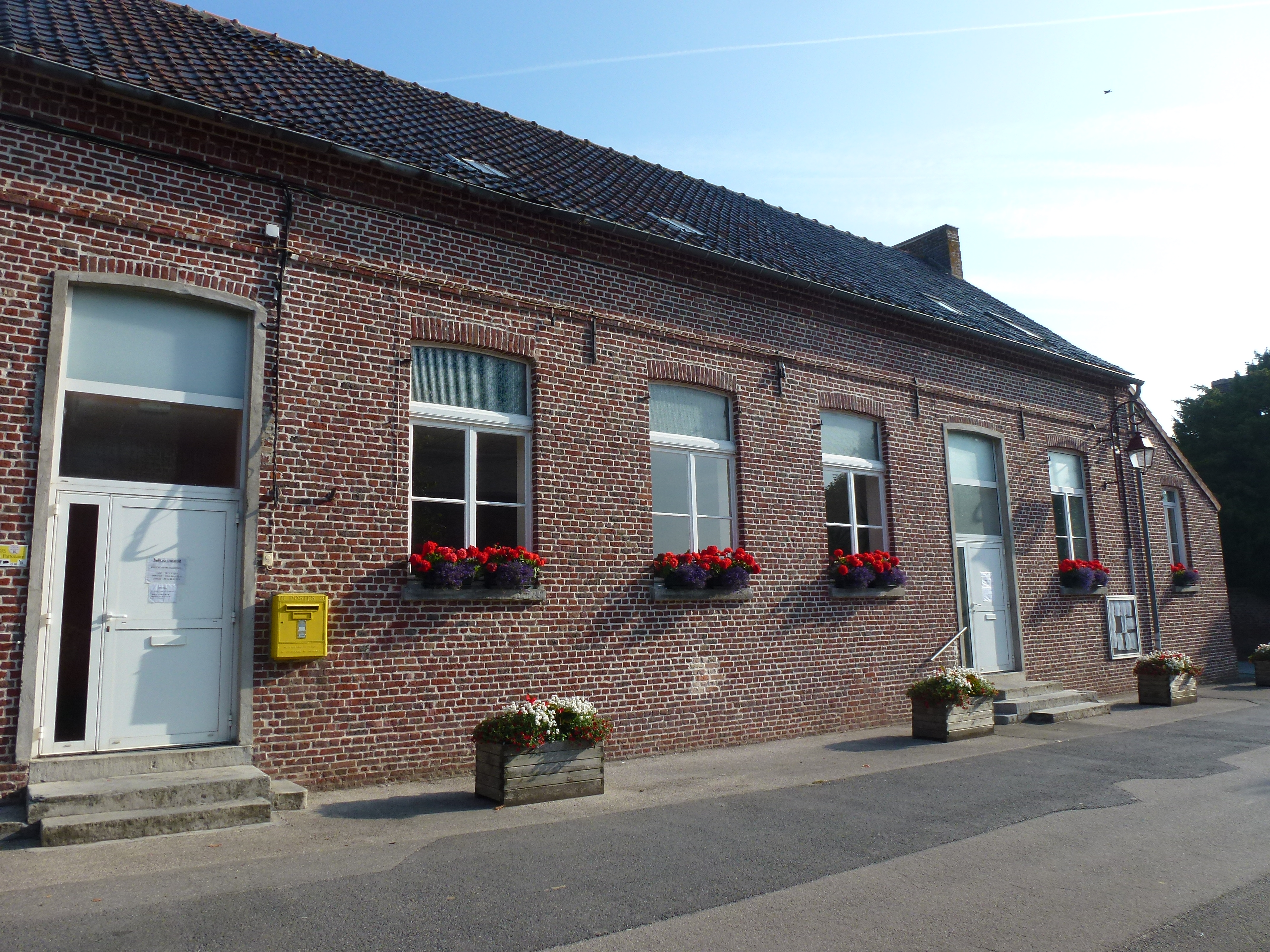 Sainte-Marie-Cappel (Nord, Fr) mairie et bibliothèque